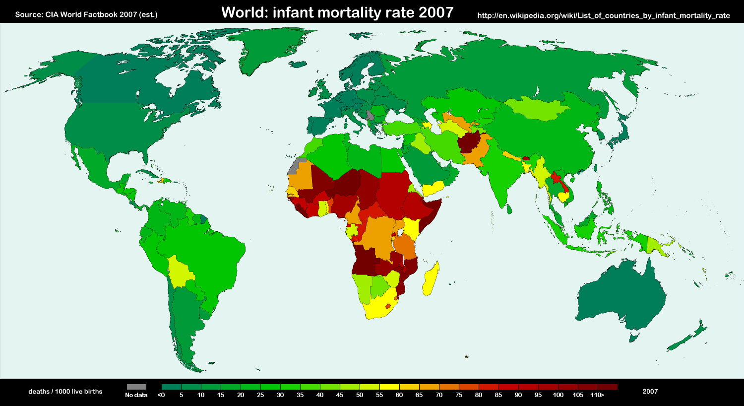 World net birth rate 2007. Figures taken from CIA World Factbook 2007 [1]. World map colorized with custom colorizing script. ↑